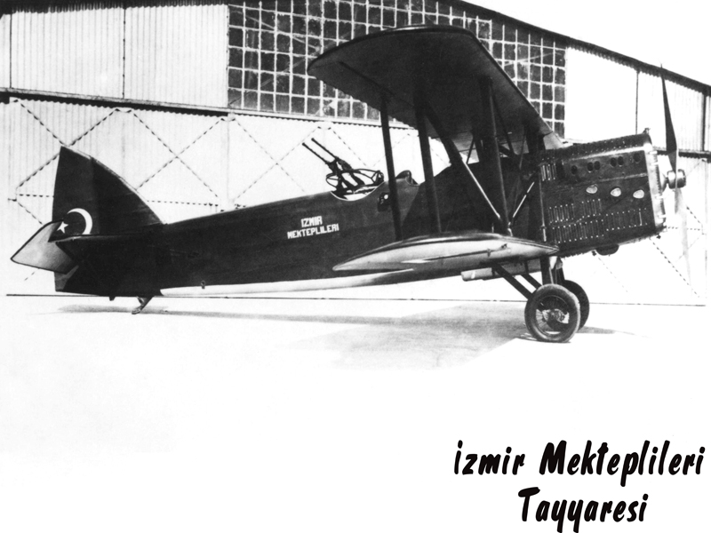 Letov Š-16T Smolik "İzmir Mekteplileri"